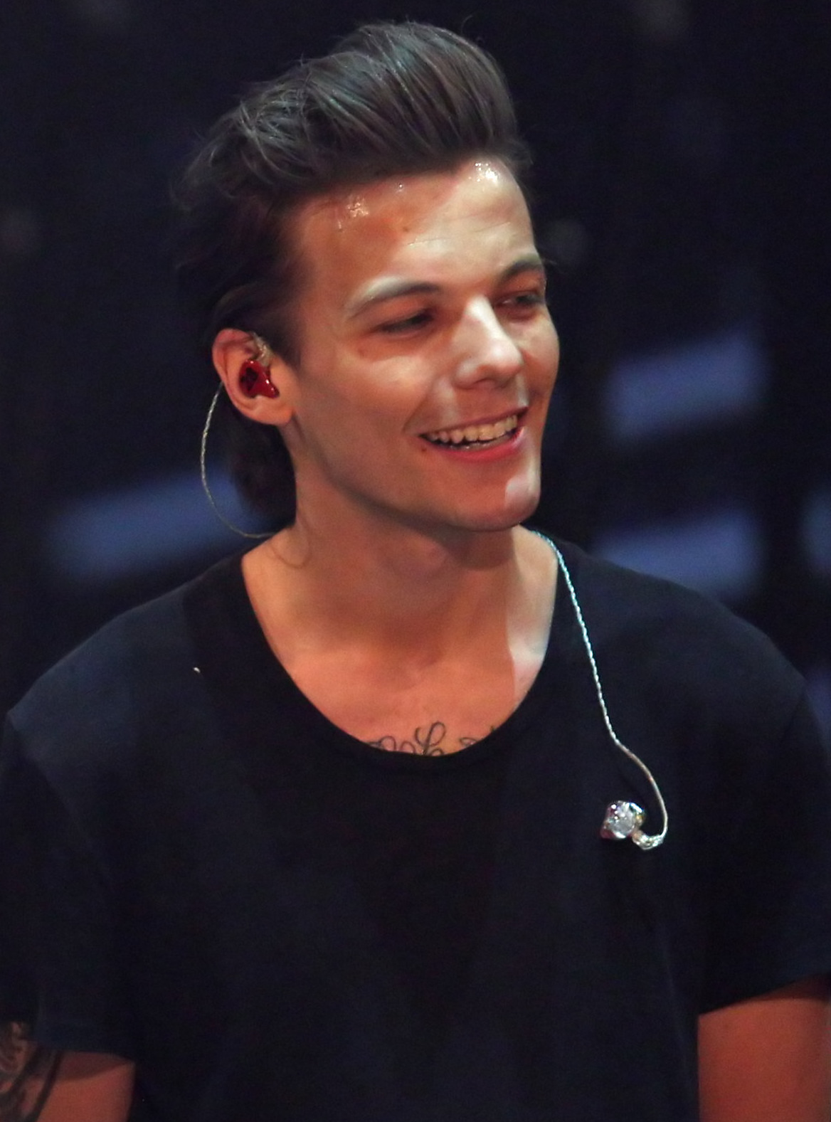 Wetten, dass.. ? 214. show in Graz, 8. Nov. 2014 Louis William Tomlinson at 214. Wetten, dass.. ? show in Graz, 8. Nov. 2014